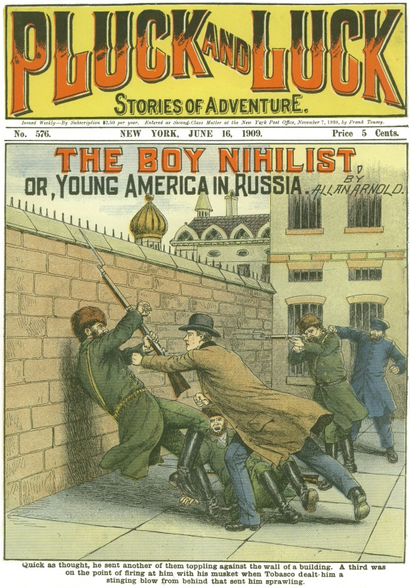 The Boy Nihilist, by Allan Arnold in Pluck and Luck June 16 1909. Published by Frank Tousey